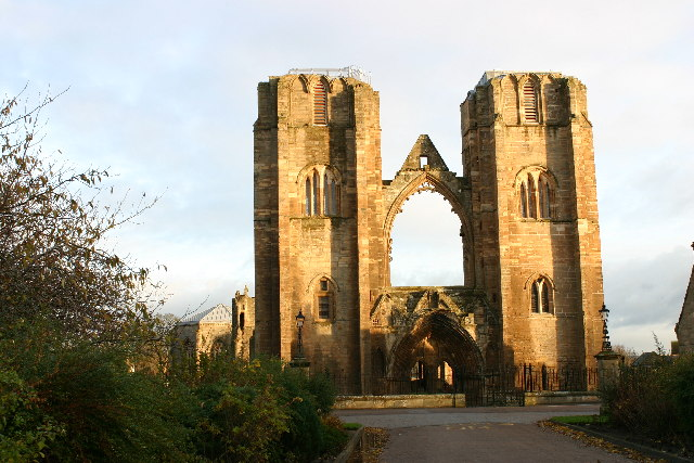 Elgin Cathedral